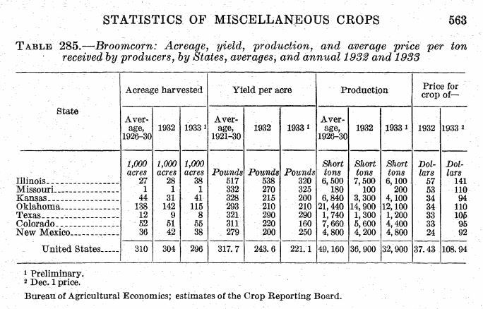 A table describing broomcorn production in several states from 1932-33